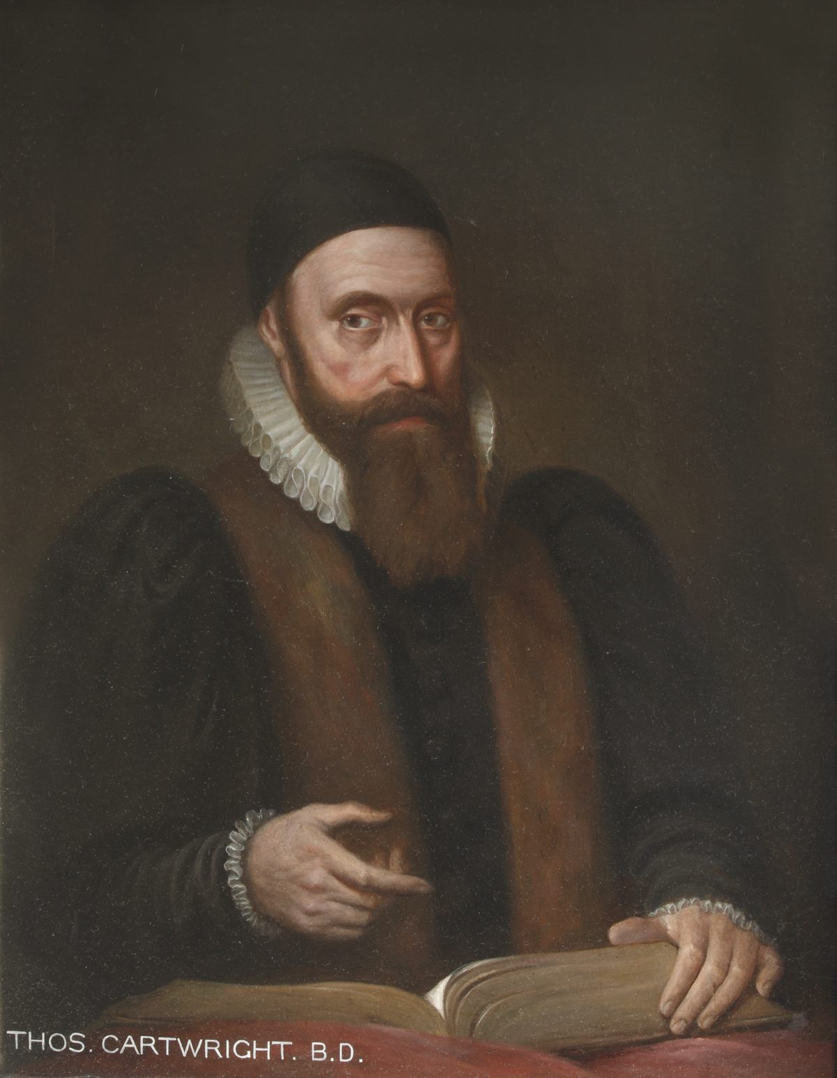 Depicted person: Thomas Cartwright